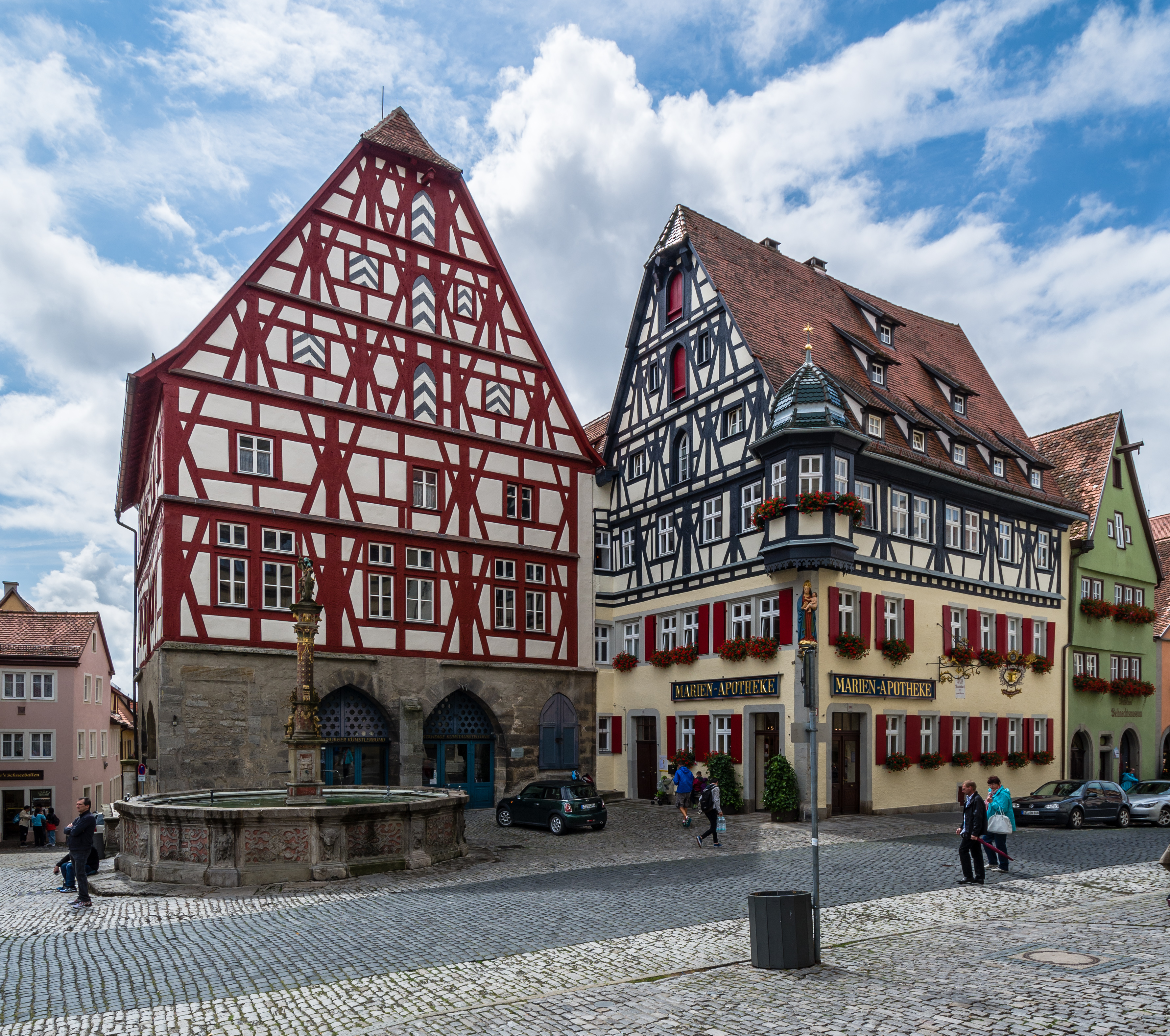 View from market place to fountain Herterichsbrunnen, Fleischhaus and Marienapotheke in Rothenburg ob der Tauber